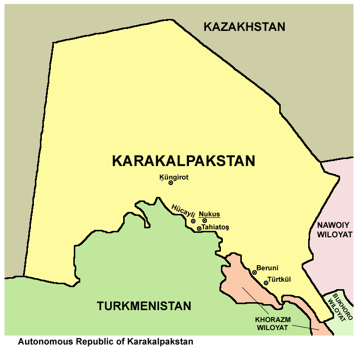 Map of Karakalpakstan.